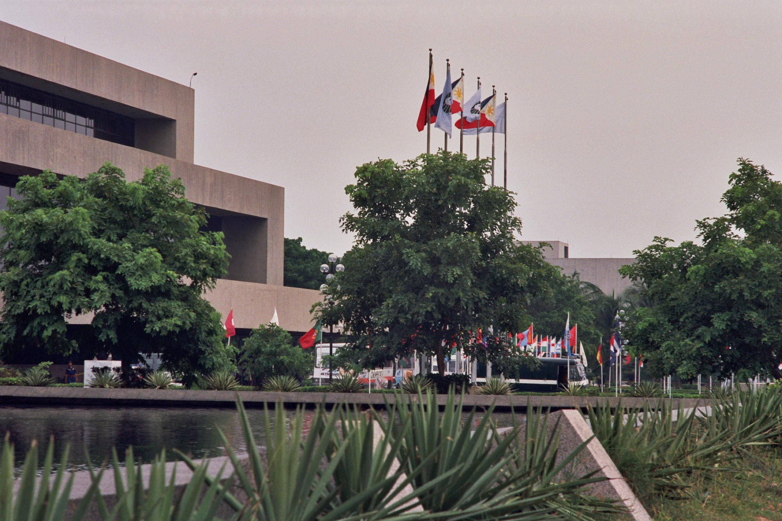 Chess Olympiad 1992 in Manila, hall of tournament, Photographer Gerhard Hund.